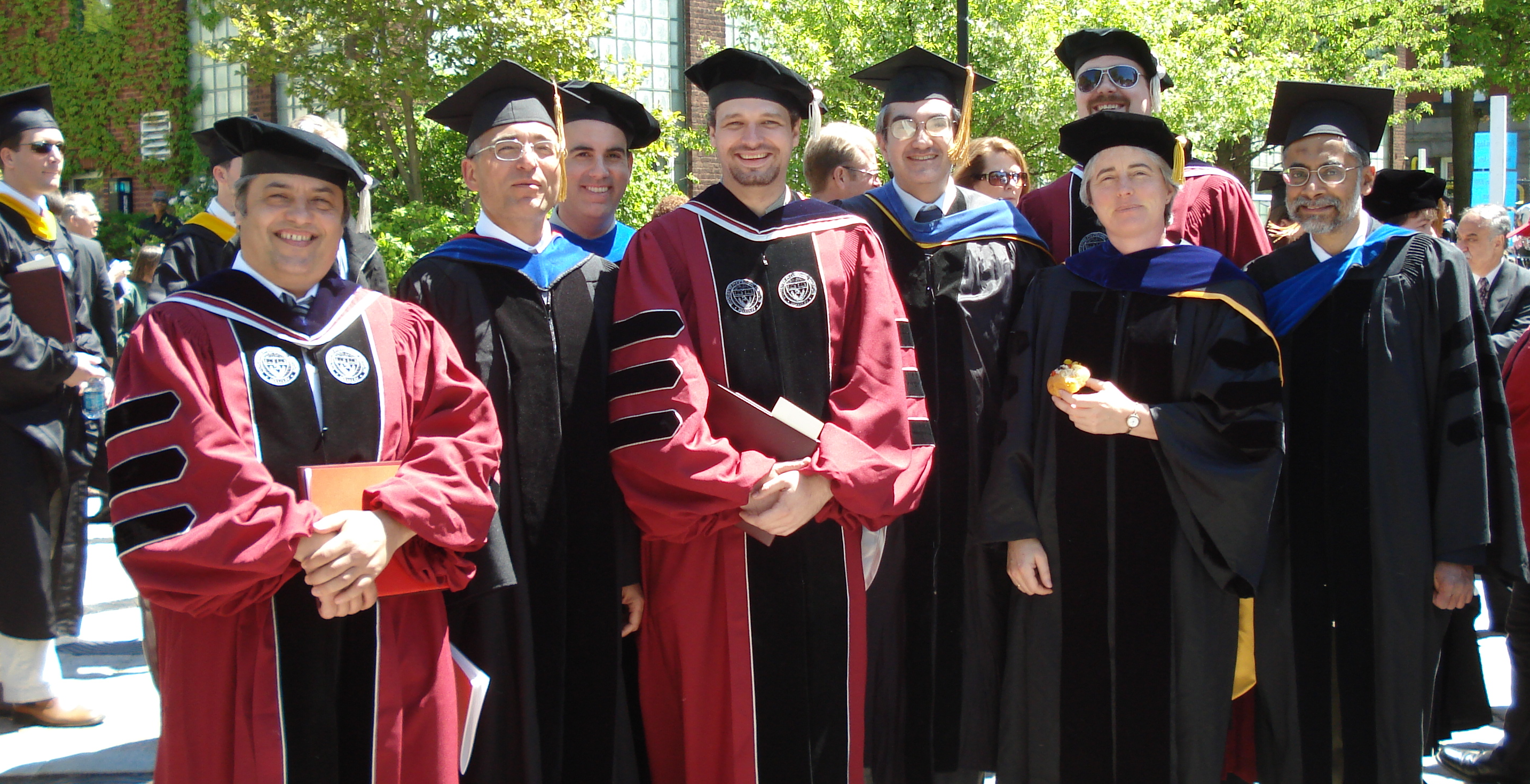 Professors and PhD recipients pose after graduation at Worcester Polytechnic Institute